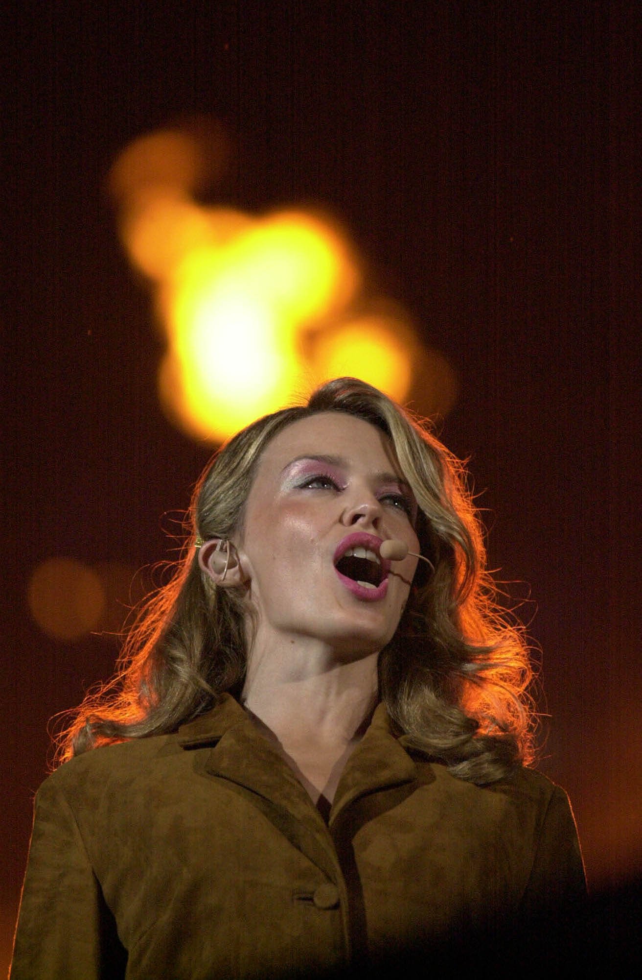 Australian singer Kylie Minogue performing infront of the Paralympic Flame during the Sydney Paralympic Games Opening Ceremony